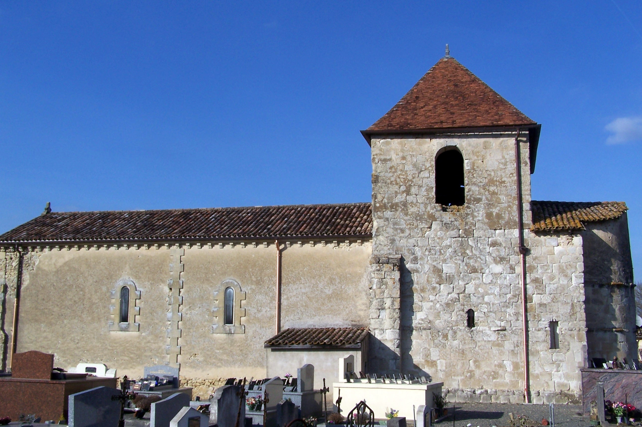 Church of Saint-Romain-de-Vignagne in Sauveterre-de-Guyenne (Gironde, France)